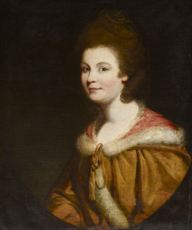 Portrait of Mary O'Brien, Countess of Inchiquin (1750-1820), born Mary Palmer, niece of Sir Joshua Reynolds. Property of Baron Egremont of Petworth House, Sussex, on loan to the National Trust